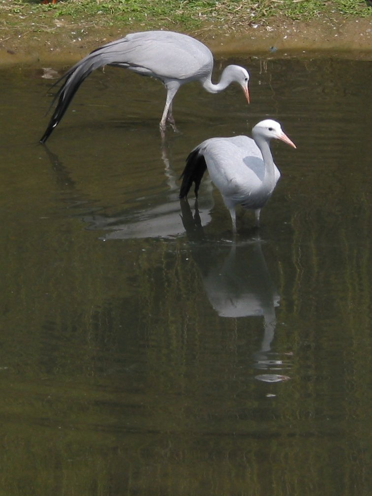 Anthropoides paradisea